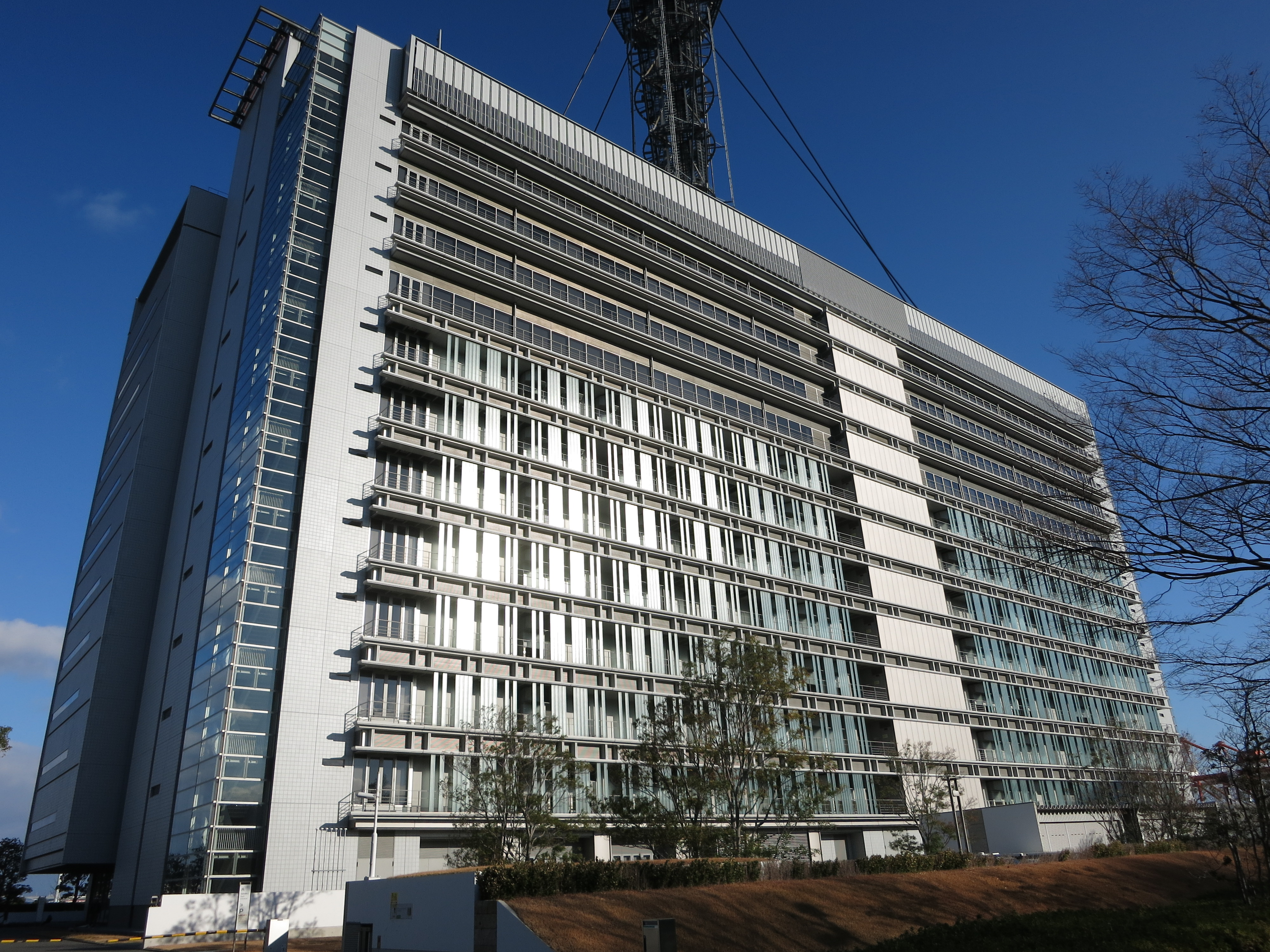 NTT docomo Nanko Ground